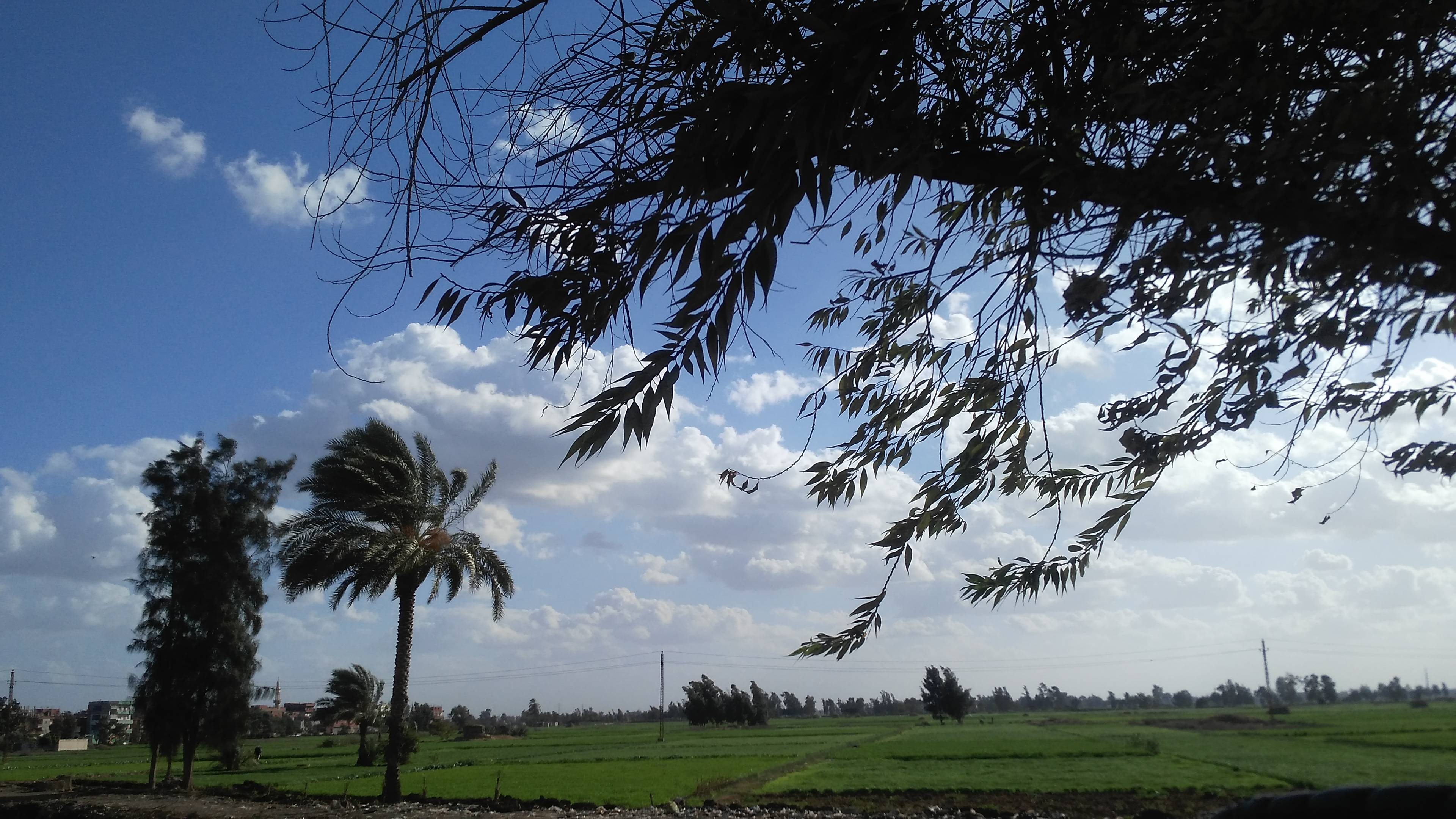 This is an image with the theme "Africa on the Move or Transport" from: Egypt